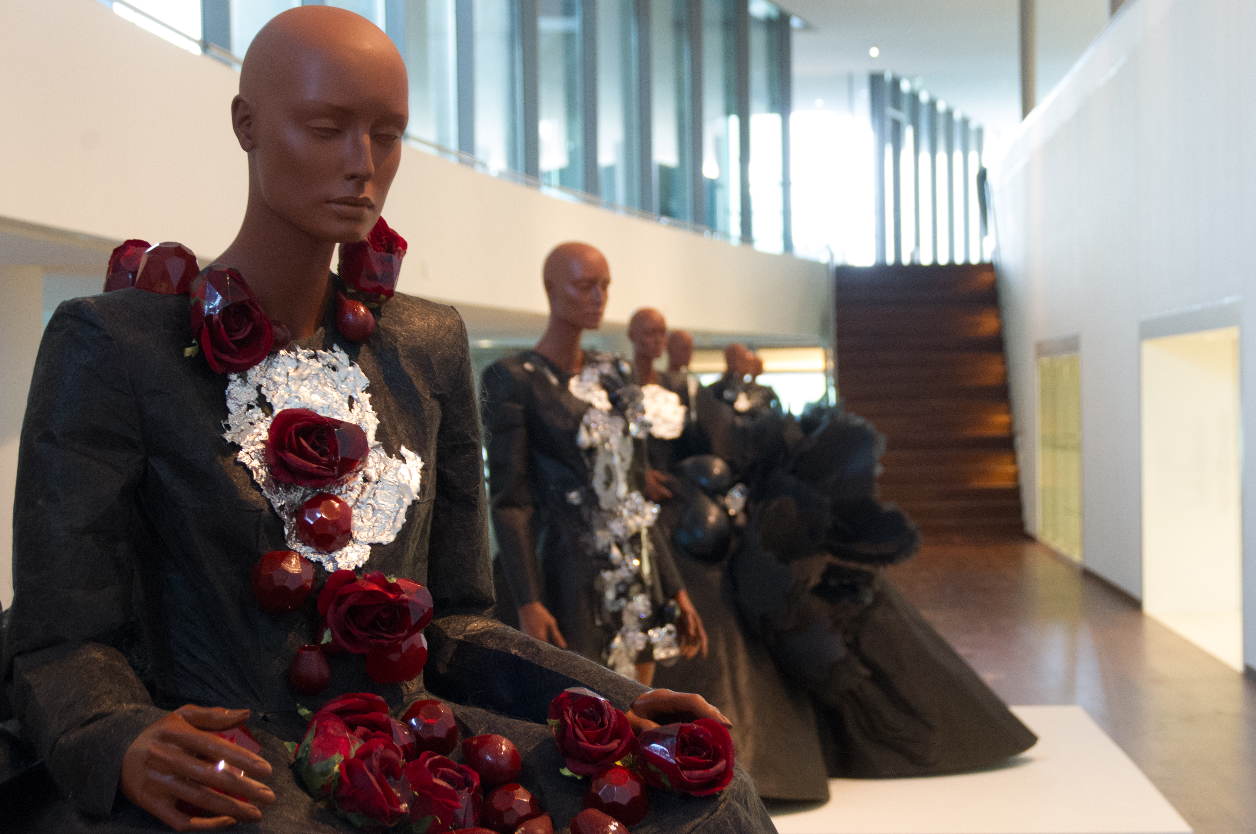 Marga weimans fashion house exhibition at the stadsbibliotheek in Amsterdam, which ran until 24 oktober 2014